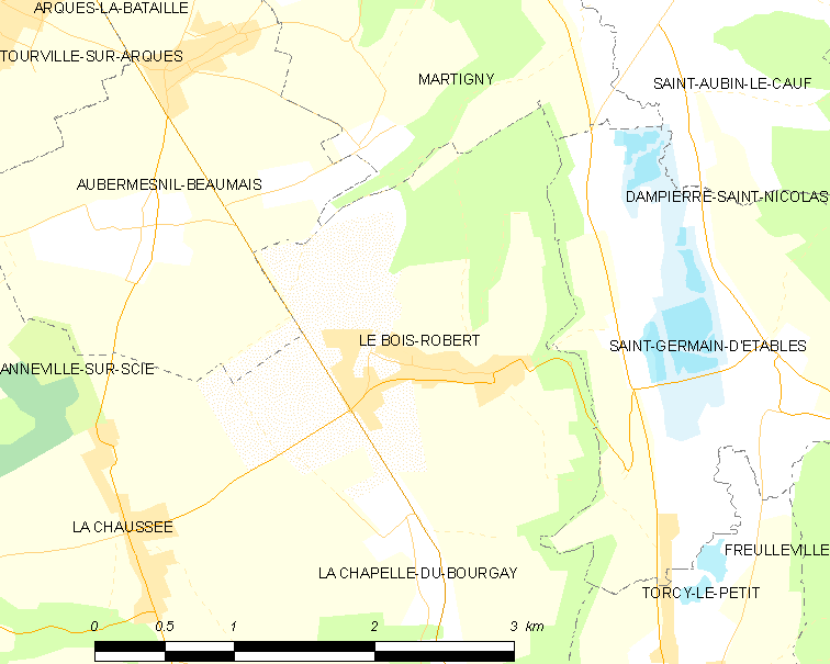 Map of French municipality Le Bois-Robert